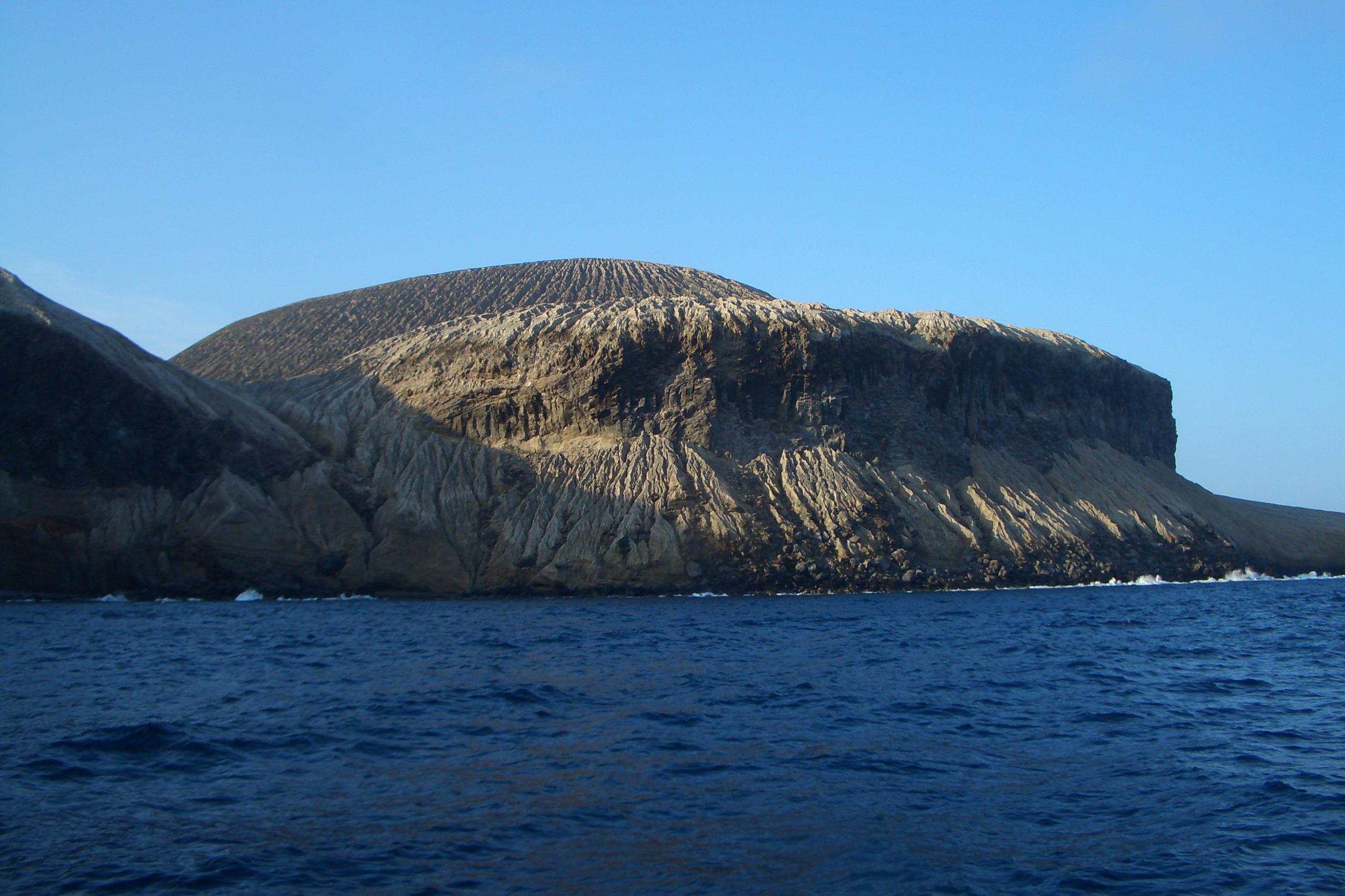 View of San Benedicto Island, Revillagigedo Islands, Mexico